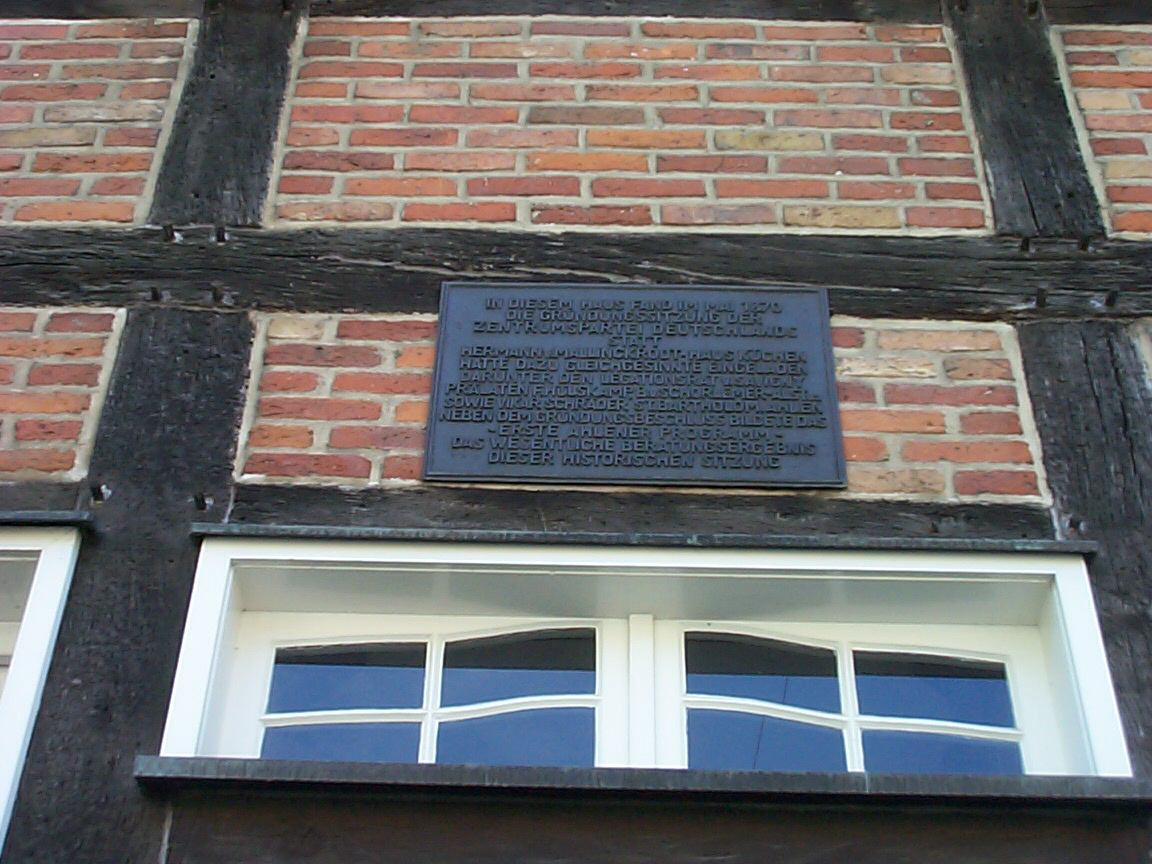 Memorial plaque to bear in remembrance founding the german Zentrumspartei in 1870 in Ahlen, Germany.